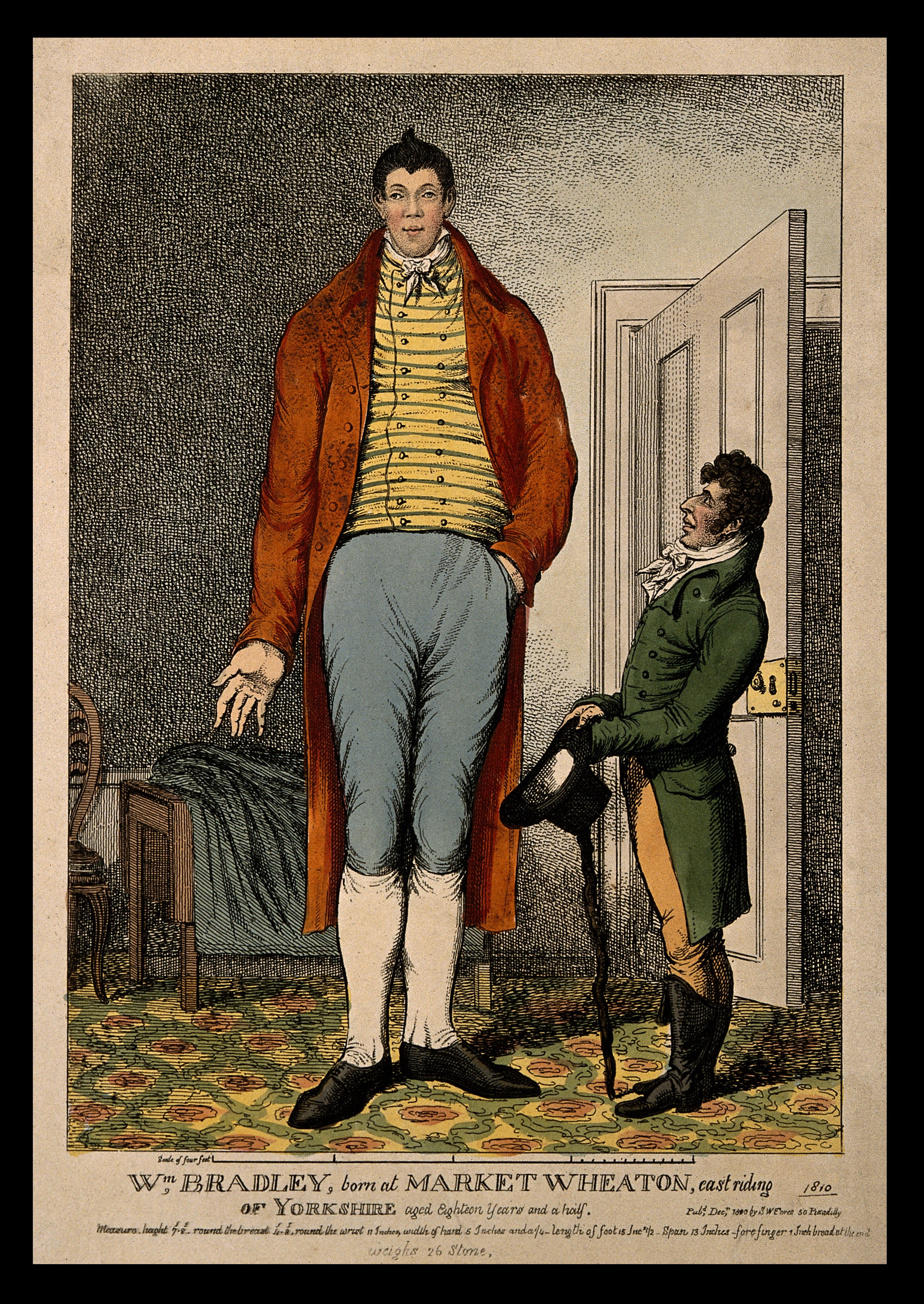 William Bradley, a giant. Coloured etching, 1810. Iconographic Collections Keywords: giants; William Bradley; portrait prints; HUMAN CURIOSITIES; bradley, william, 1792-1820; etchings